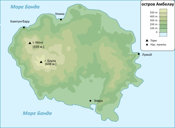 Map of Ambelau in Russian